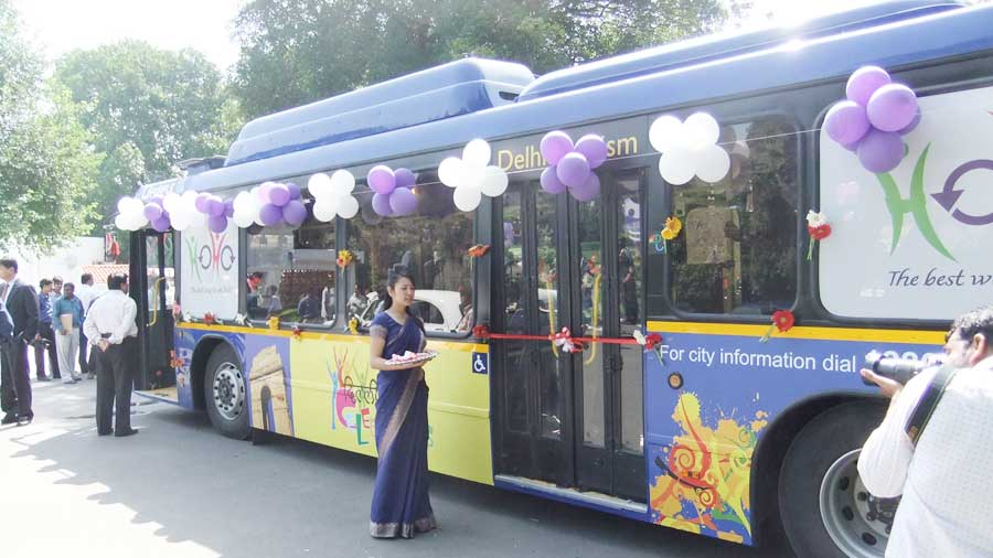 HOHO DELHI BUS